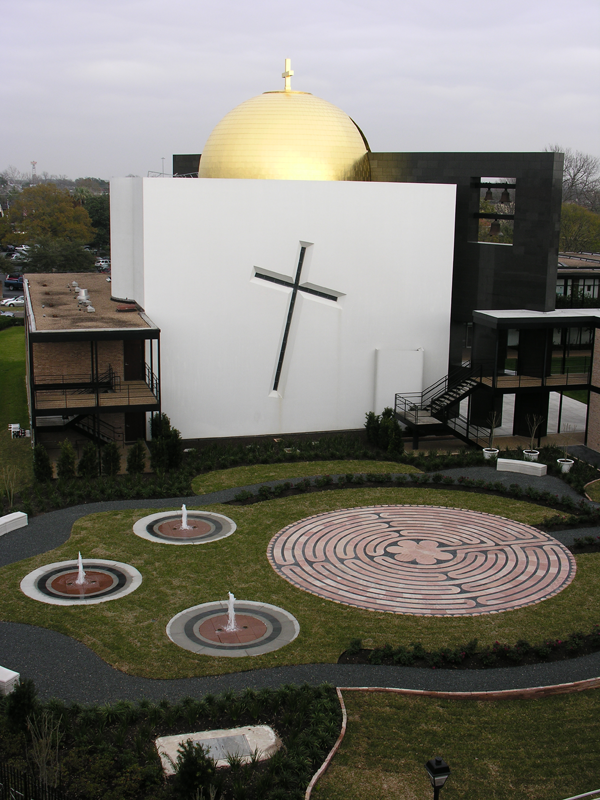 Chapel of St. Basil at the University of St. Thomas (Houston) pictured with the newly installed prayer labryinth.